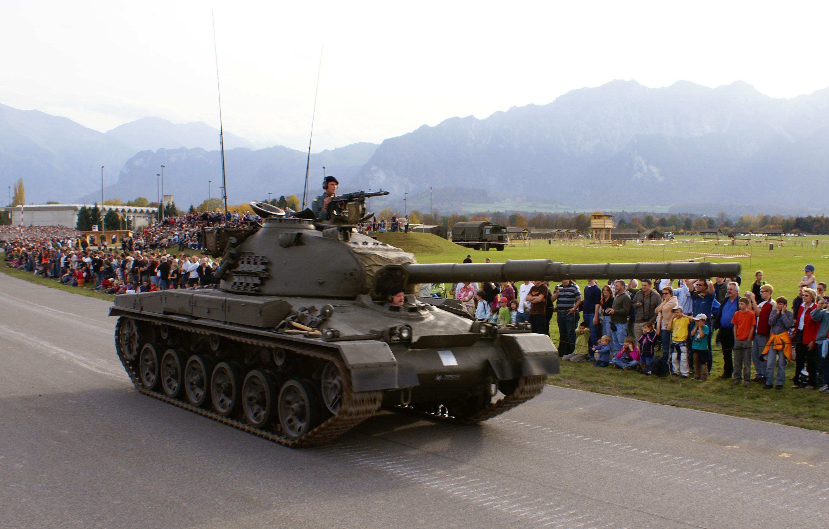 Swiss Army. Main battle tank 61. In use until 1995. Participating in the "Steel Parade" of the 2006 Army Days, Thun.